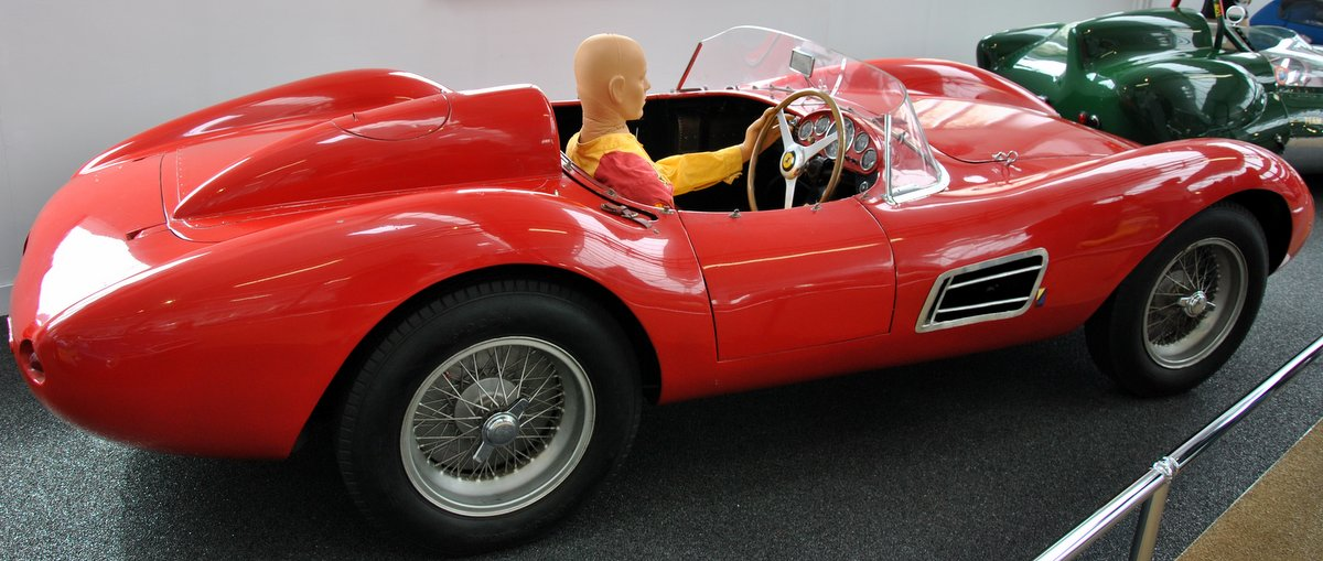 1957 Ferrari 500 TRC Testa Rossa Competizione (0692 MDTR) at the Musée Matra in Romorantins, France. It has a 1,985cc inline-four with 190PS at 7000rpm, enough for a 245km/h top speed. This car, one of seventeen built, was originally purchased by Adrian Conan Doyle - son of the creator of Sherlock Holmes. It has bodywork by Scaglietti and was on loan from the Schlumpf collection. It was raced by Jo Siffert and Liebl in the 1000km Nürburgring race, where it finished 15th.